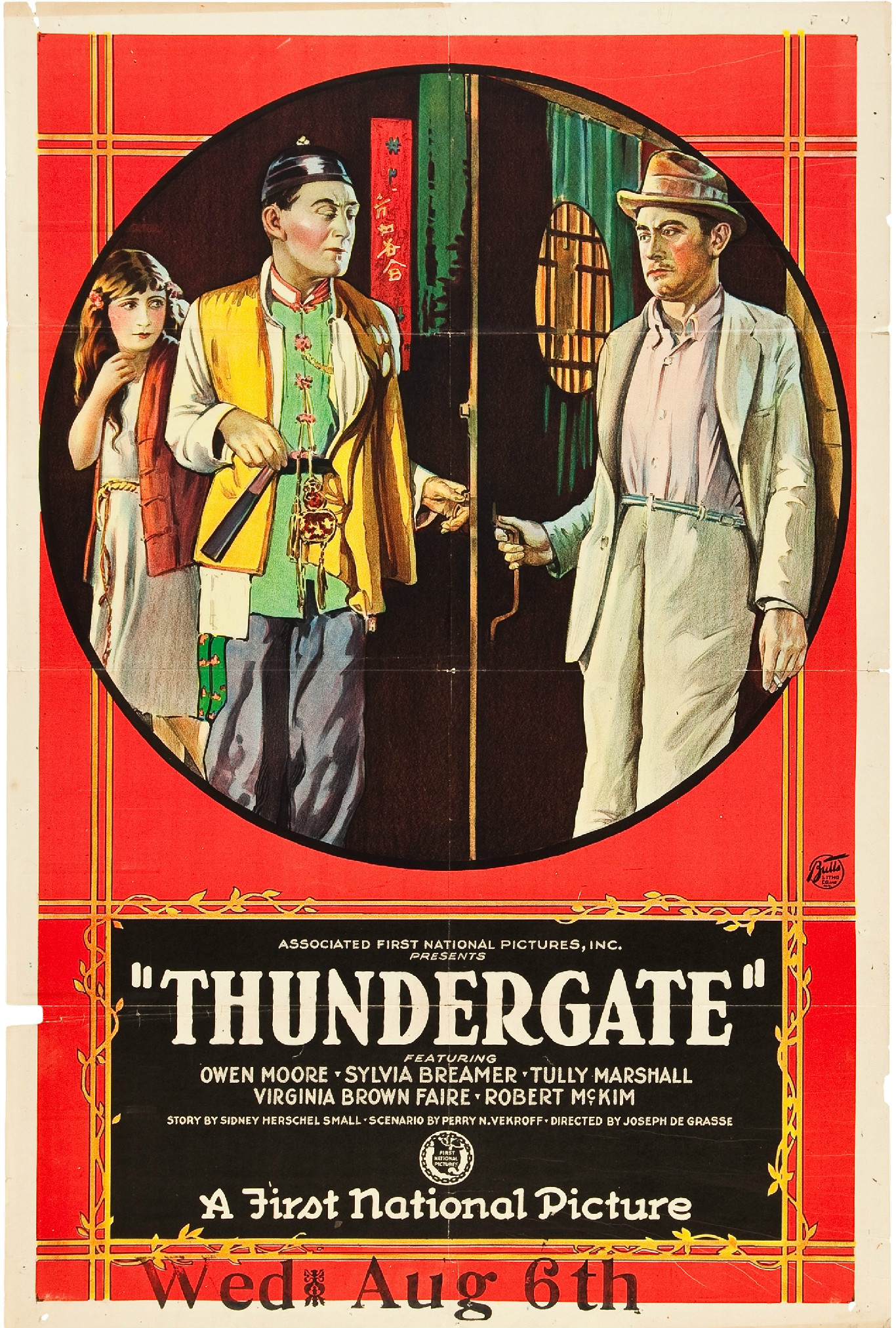 Poster for movie Thundergate